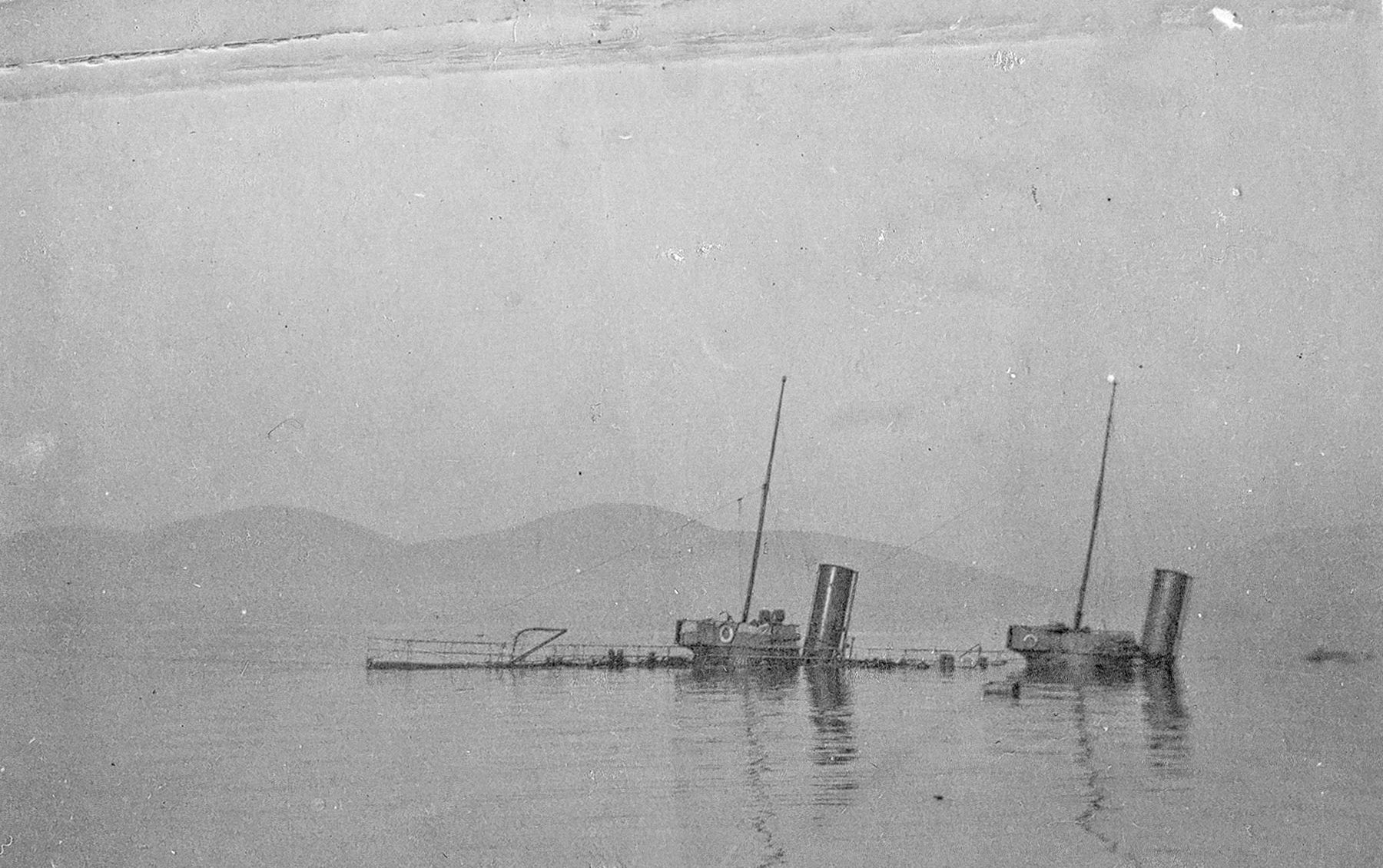 The Imperial Russian torpedo crusiers Gaydamak and Vsadnik at Port-Arthur December 1904.